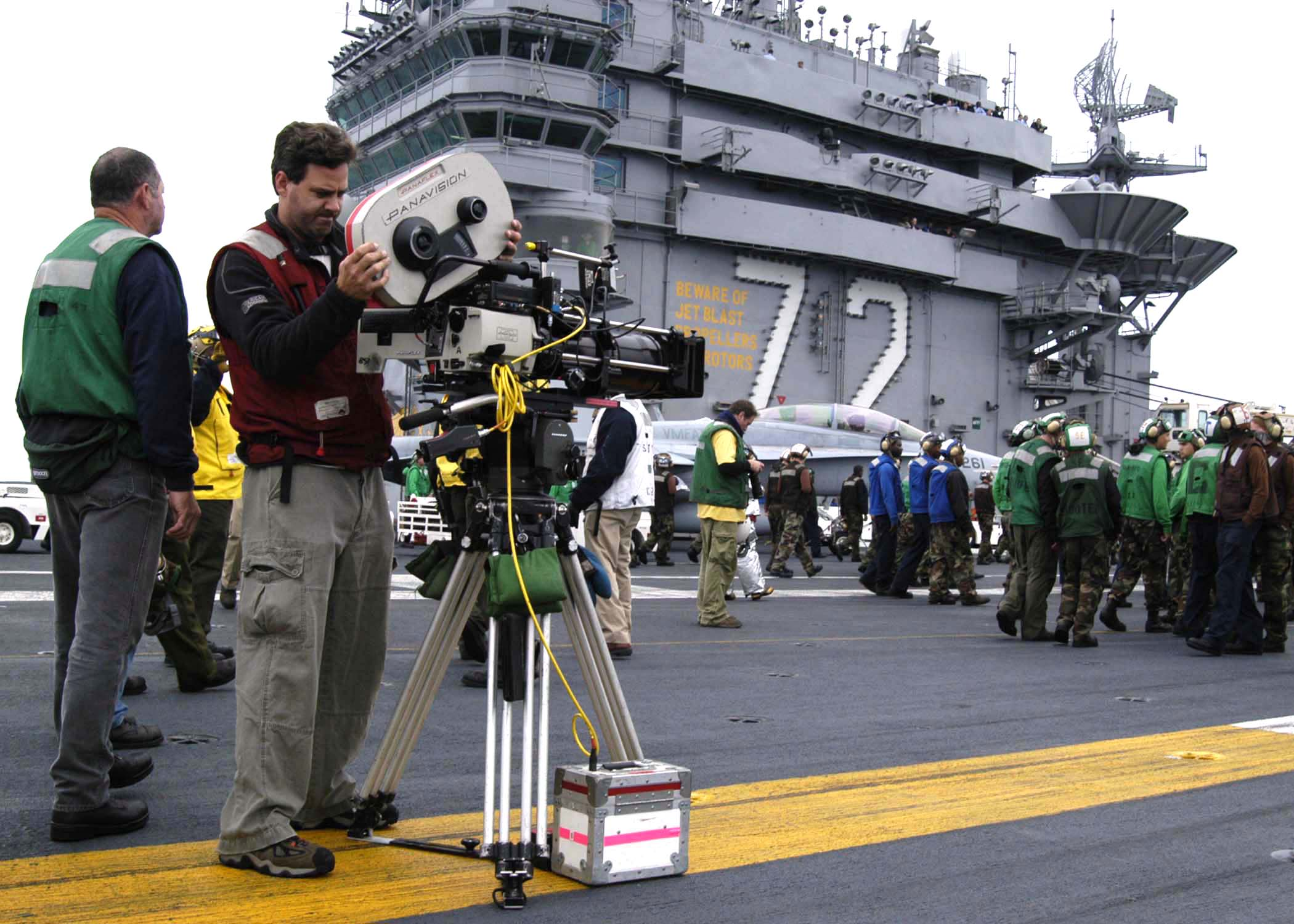 Pacific Ocean (Jun. 15, 2004) - A camera crew sets up for scenes to be filmed on the flight deck for the upcoming motion picture “Stealth,” with the crew of the Nimitz-class aircraft carrier USS Abraham Lincoln (CVN 72). After ten months of dry docked Planned Incremental Availability (PIA) maintenance, Lincoln is conducting local operations in the Pacific Ocean in preparation for an upcoming deployment. U.S. Navy photo by Photographer’s Mate 3rd Class Tyler J. Clements. (RELEASED)